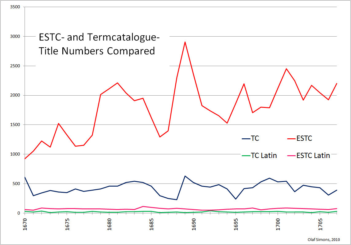 Comparison of title numbers as listed by the ESTC and the English term catalogues published between 1670 and 1709